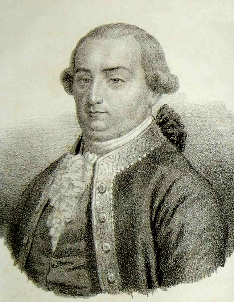 Depicted person: Cesare Beccaria